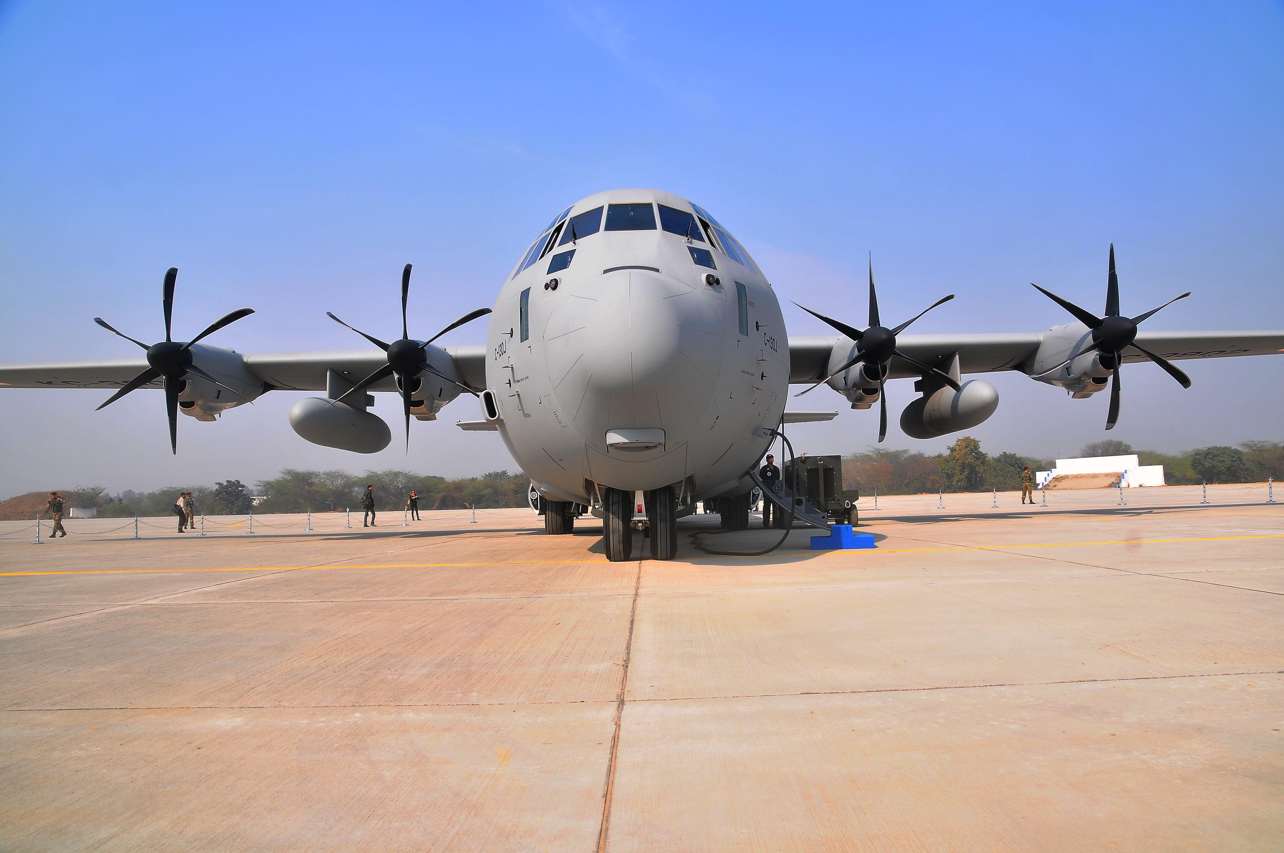 IAF INDUCTS C-130J-30 SUPER HERCULES TACTICAL AIRLIFT AIRCRAFT